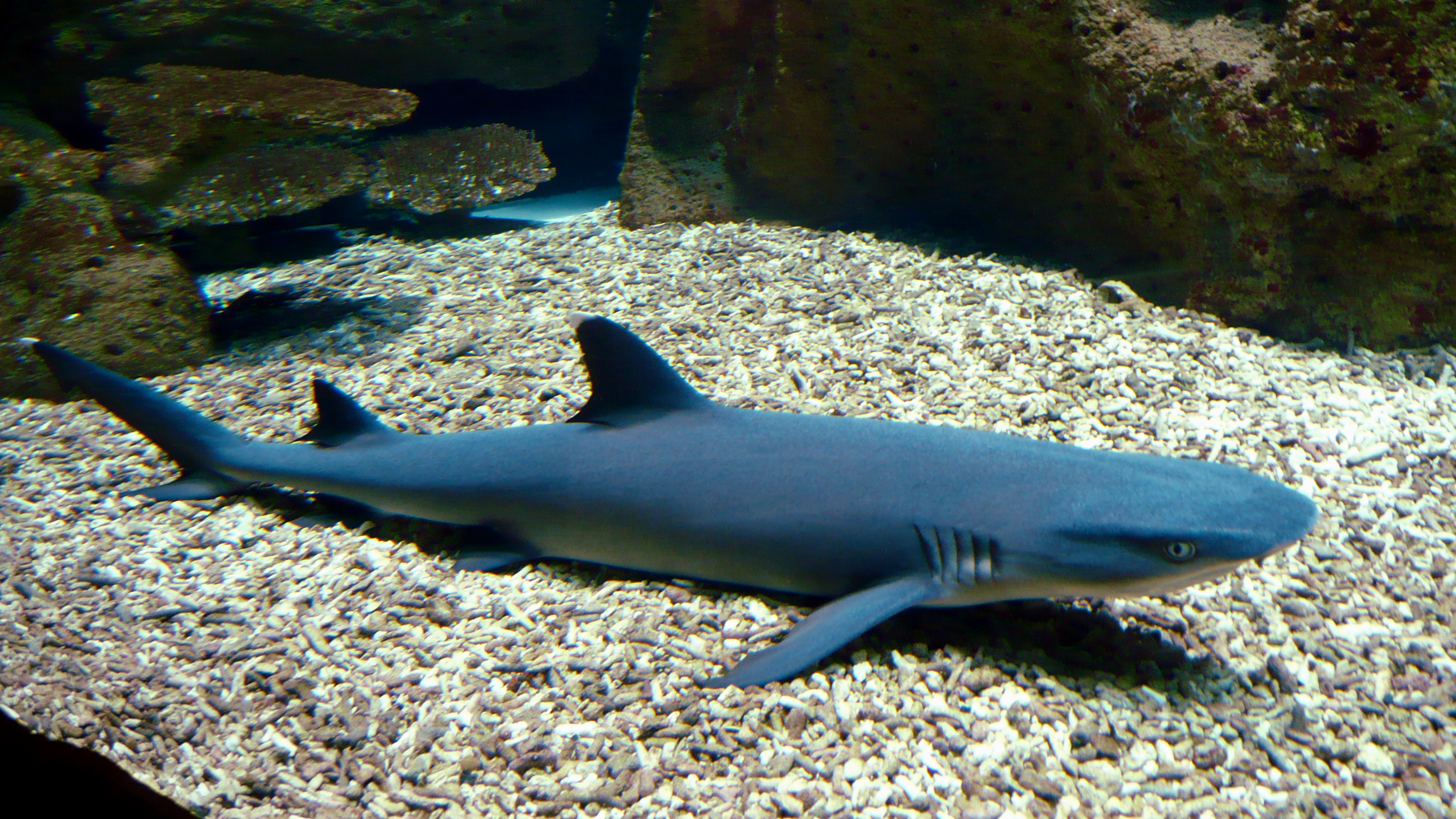 Whitetip reef shark (Triaenodon obesus), Location: House of Sea in Vienna